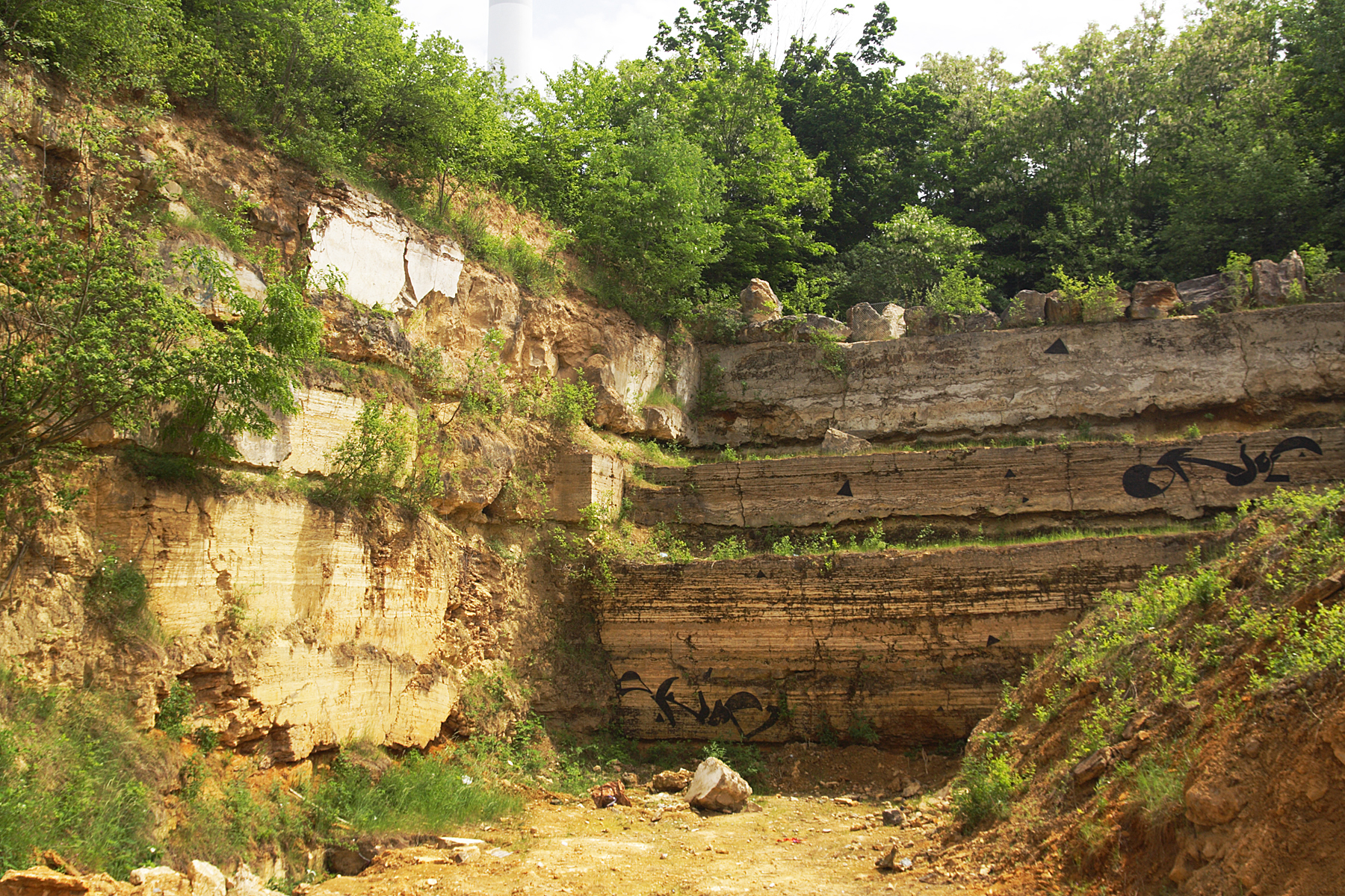 Travertine sedimented by river Neckar in the quarry of “Fa Haas” in Stuttgart-Münster. Exploitation was abolished by 1988. The Travertine was slowly sedimented in interglacial times of Pliocene: Early and late Riss glaciation (“Hoßkirch Complex”), the Eemian (early Würm glaciation) and warm times of Holocene. The karstwaters emerged from karst springs in Upper- and Middle Muschelkalk. The chemically precipitated Travertine limestone tends to form thin fine layers of sediment. Remarkable are some beddings, coloured kind of brownish, a colour typical for a product of chemical weathering, such as oxidised iron. The Travertine complex tops old fluvial terraces of river Neckar, the peak is 30 m thickness.